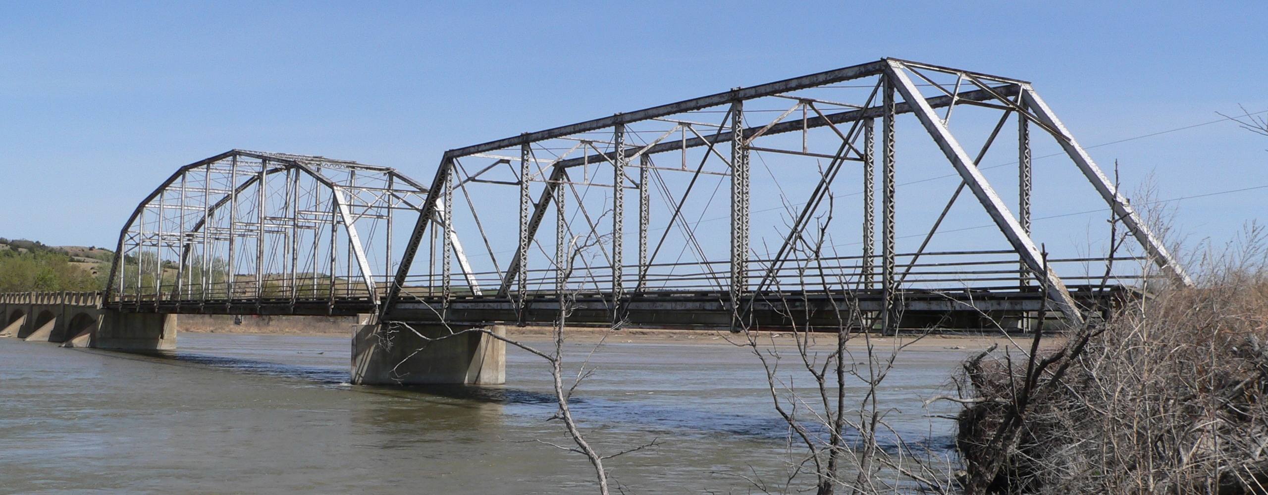 Carns State Aid Bridge, crossing the Niobrara River from Rock County, Nebraska on the south bank to Keya Paha County, Nebraska on the north; seen from the southwest. The northern portion of the bridge is a set of five concrete-filled spandrel arch spans; it was built in 1913. A sixth southern span and the approach to the bridge were washed out in 1962; the gap was filled with two truss spans salvaged from elsewhere in the state. The bridge is listed in the National Register of Historic Places.